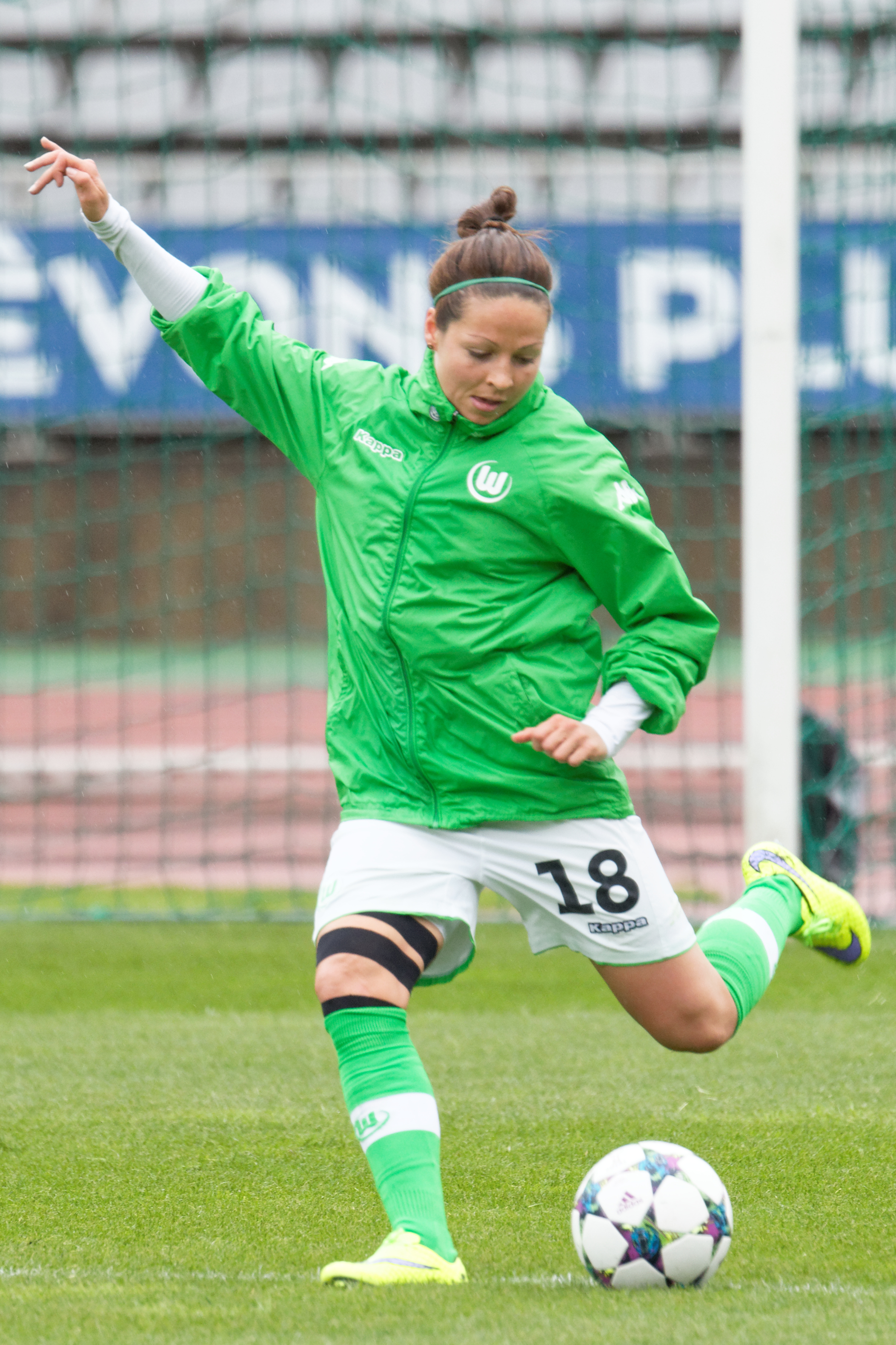 UEFA Women's Champions League, PSG - Wolfsburg, 26 April 2015.